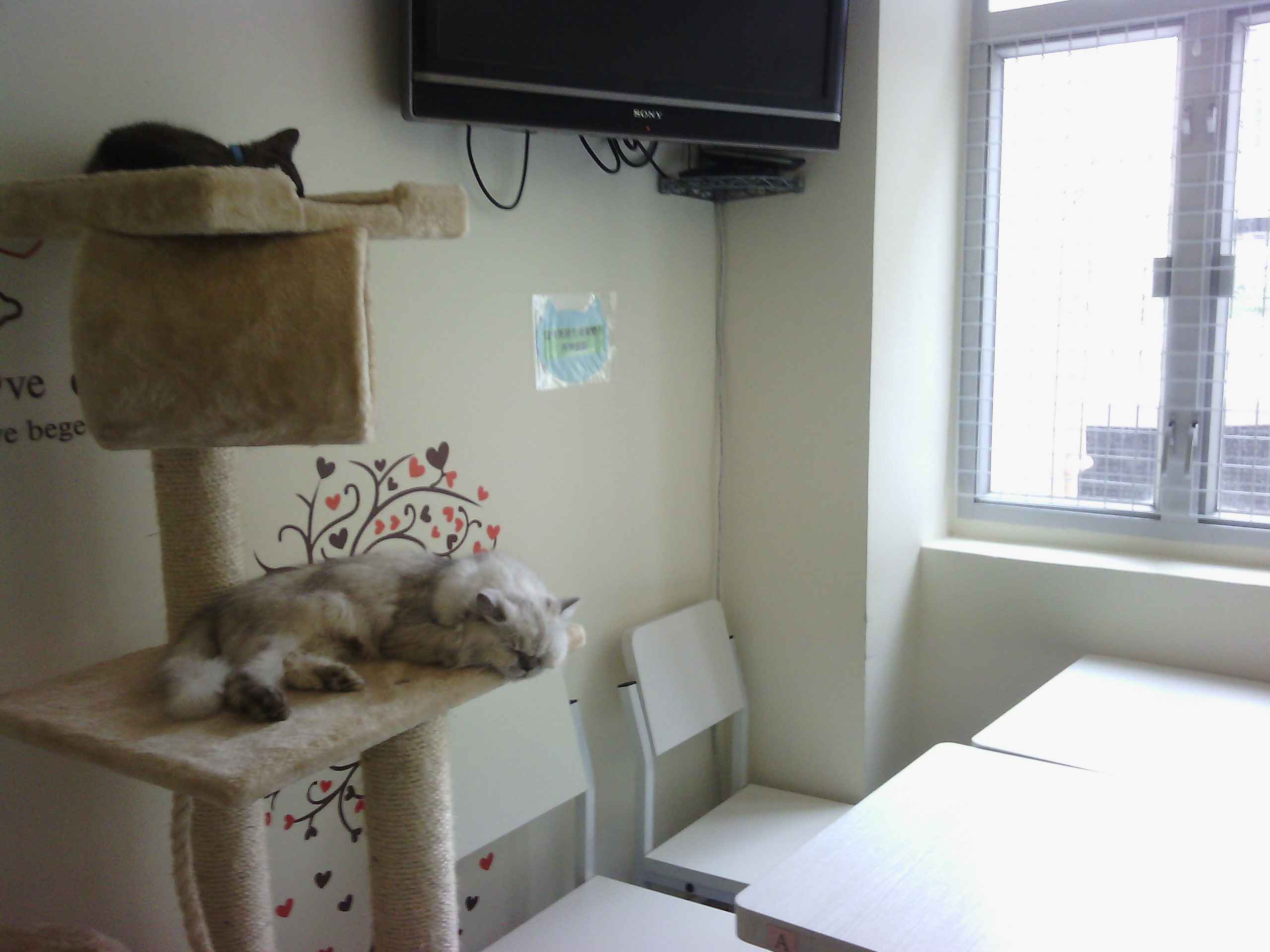 interior of upstairs cafes in hong kong